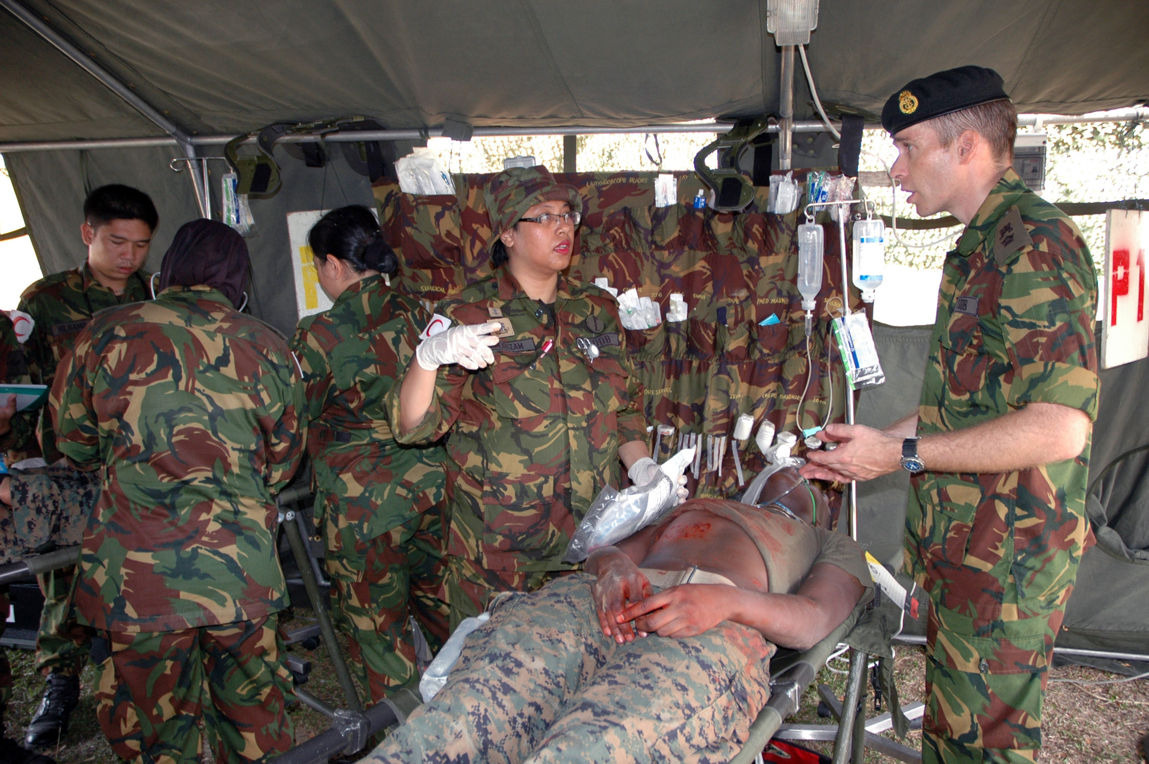 BINTURAN, Brunei (Aug. 6, 2009) Royal Brunei Land Force medical personnel provide emergency medical treatment to U.S. Marines simulating mudslide victims during a humanitarian and disaster relief training scenario for Cooperation Afloat Readiness and Training (CARAT) Brunei 2009. CARAT is a series of bilateral exercises held annually in Southeast Asia to strengthen relationships and enhance the operational readiness of the participating forces. (U.S. Navy photo by Lt. Mike Morley/Released)